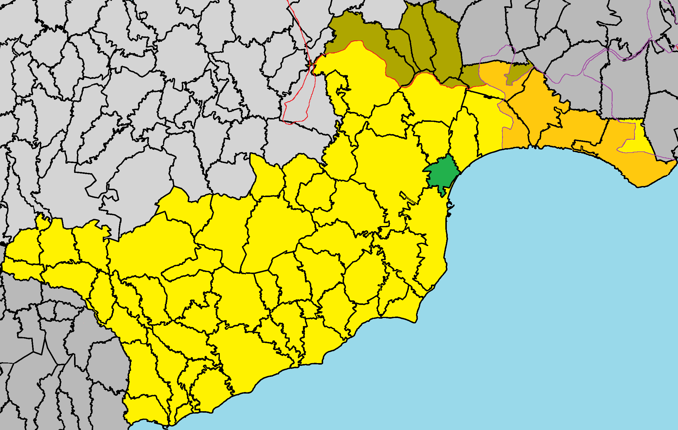 Livadia, Larnaca in Larnaca District.